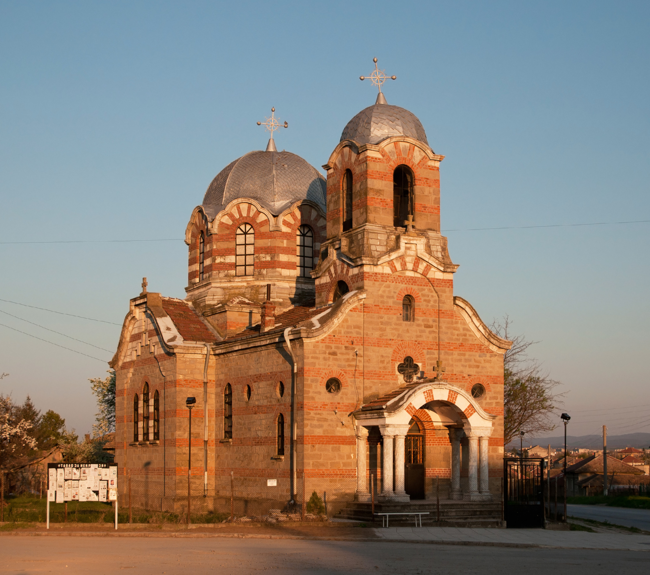 The Church of the Holy Trinity in Vabel, Targovishte, Bulgaria. It was completed in 1918 and consecrated in 1922.